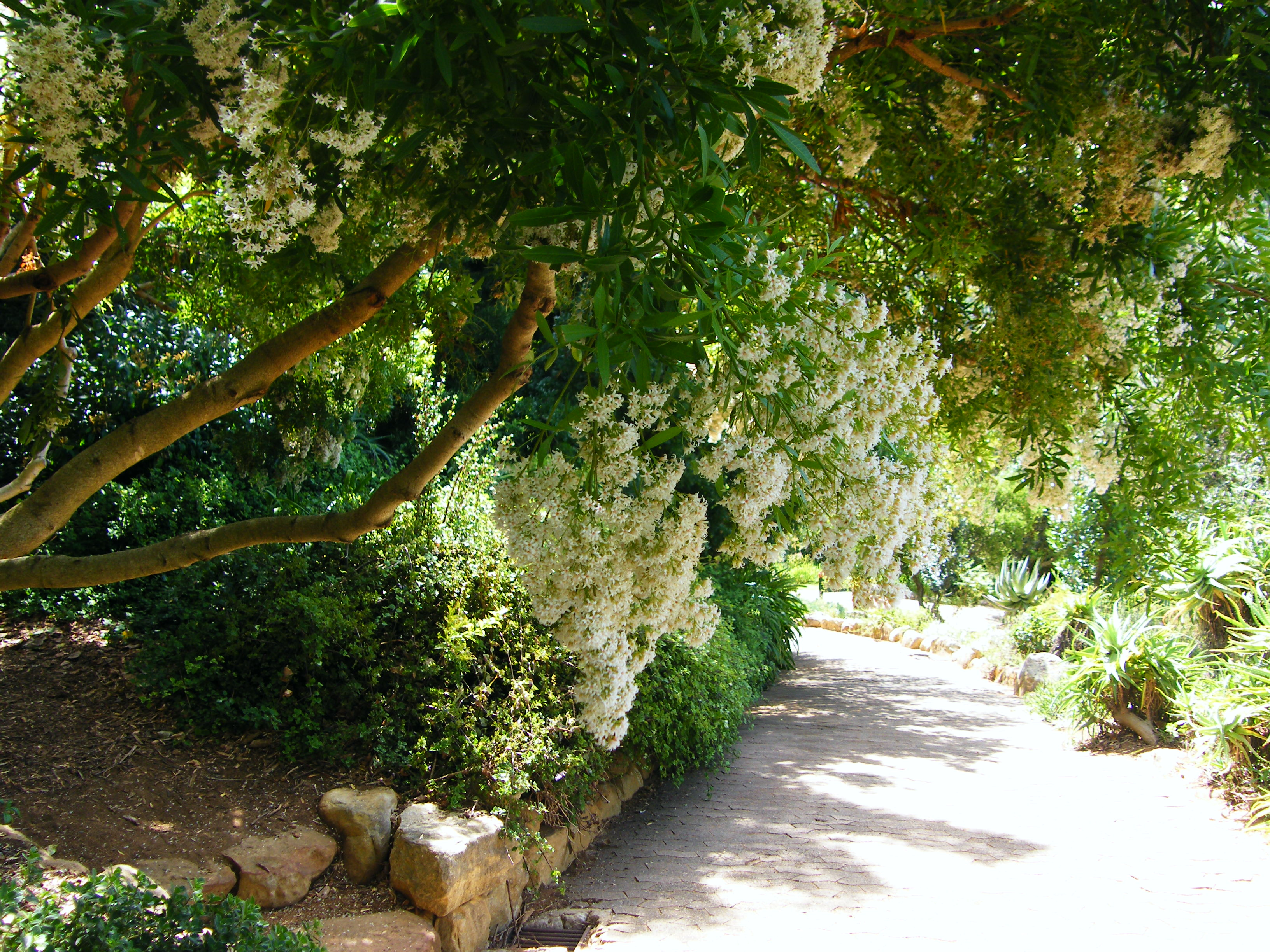 Loxostylis alata